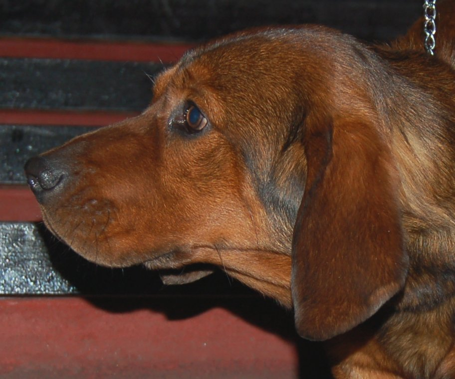 Alpine Daschbracke during, dogs show in Katowice, Poland